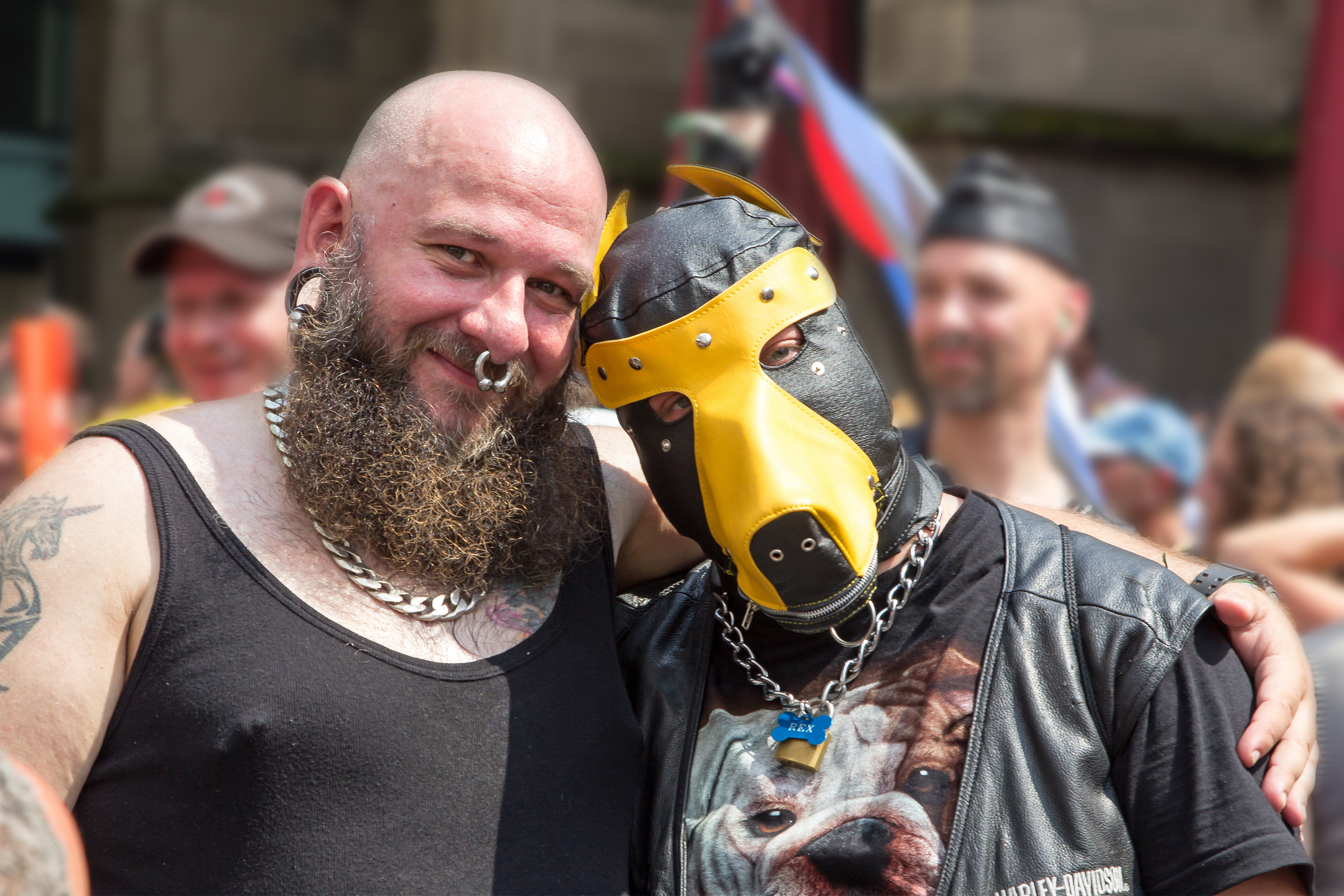 Cologne Pride - Parade on July 5th, 2015